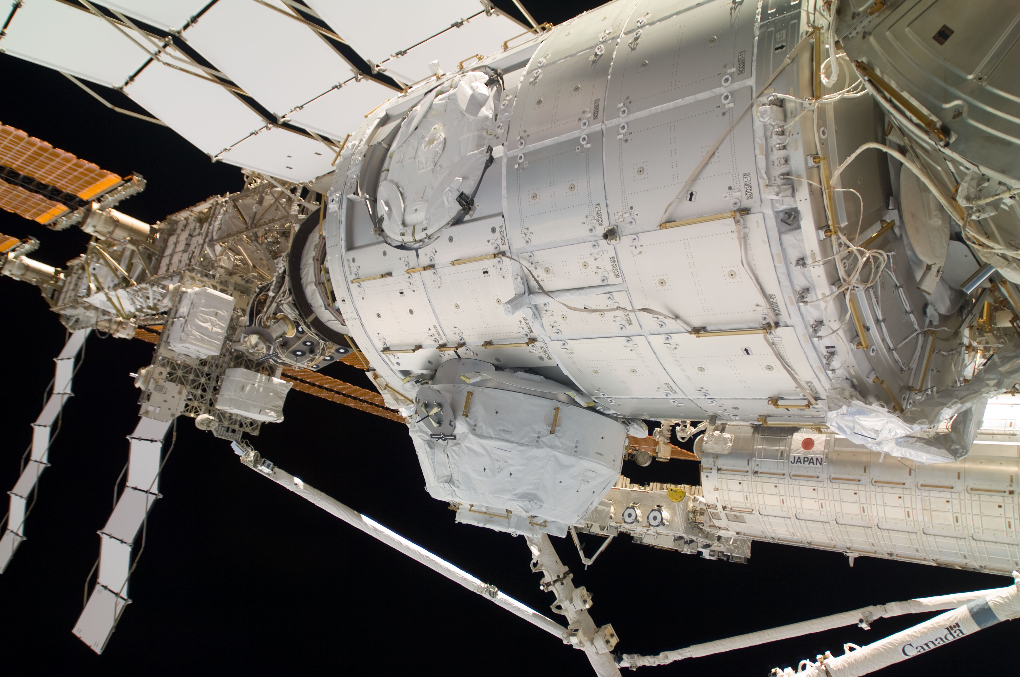 In the grasp of the Canadarm2, the Pressurized Mating Adapter 3 (PMA-3) is relocated from the Harmony node to the open port on the end of the newly-installed Tranquility node. NASA astronauts Robert Behnken and Nicholas Patrick, both STS-130 mission specialists, operated the station's robotic arm for the move, while Jeffrey Williams, Expedition 22 commander; and Japan Aerospace Exploration Agency (JAXA) astronaut Soichi Noguchi, Expedition 22 flight engineer, dealt with latches and bolts, connecting the port to its new home. Tranquility's Cupola is visible at bottom center.